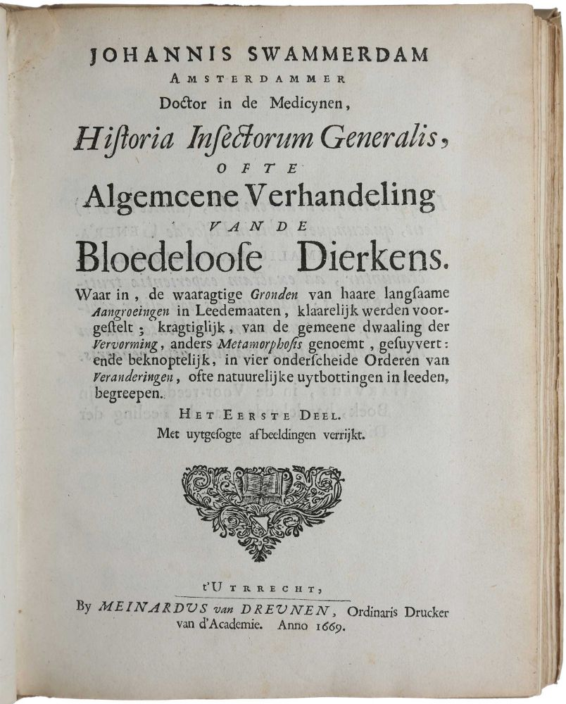 Title page. Jan (Johannes) Swammerdam : Historia Insectorum generalis ofte Algemeene Verhandeling van de Bloedeloose Dierkens. Eerste Deel, Utrecht, 1669. Meinardus van Dreunen, Ordinaris Drucker van d'Academie, Utrecht